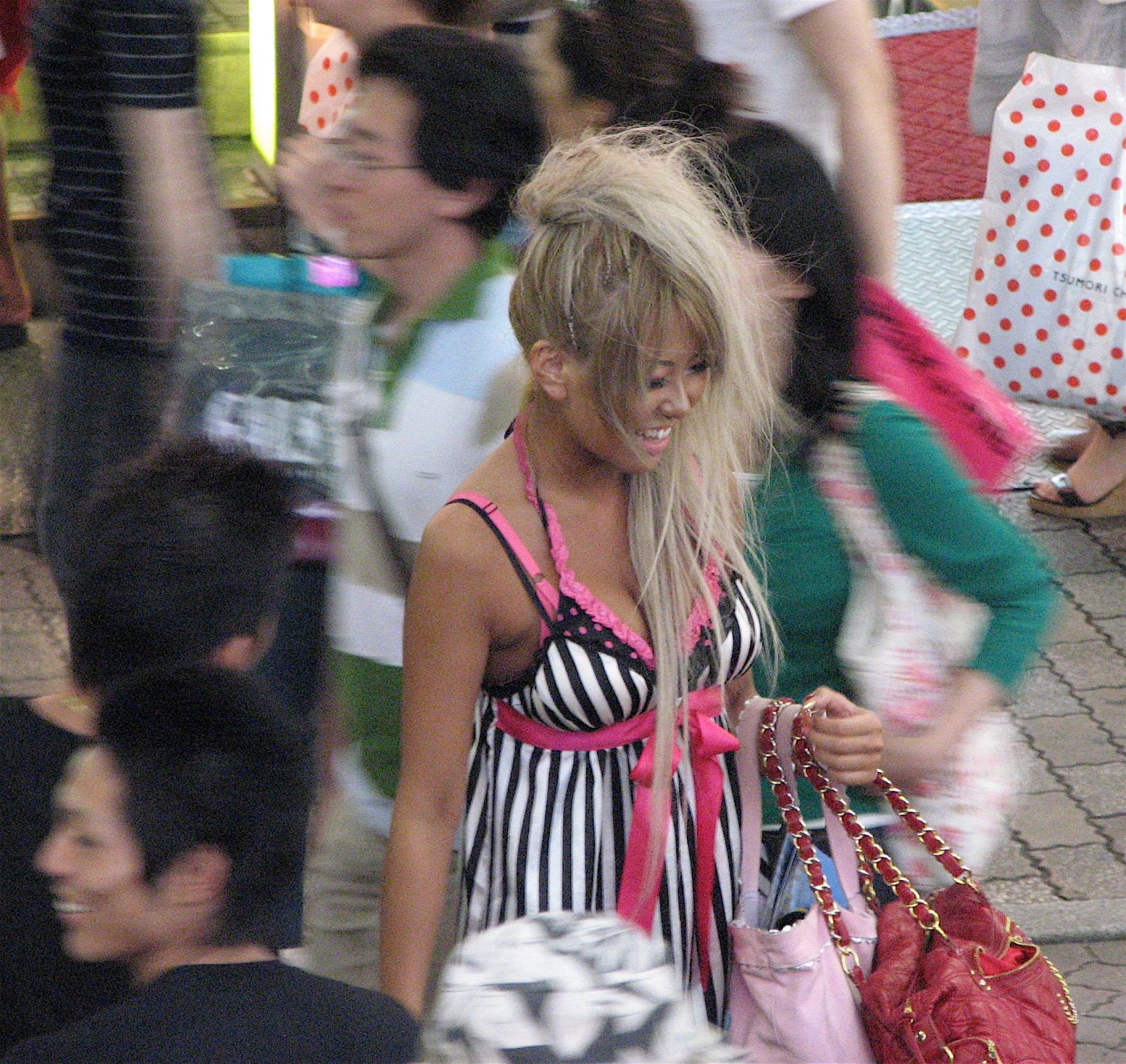 gyaru in tokyo